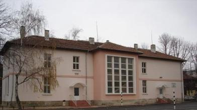 не